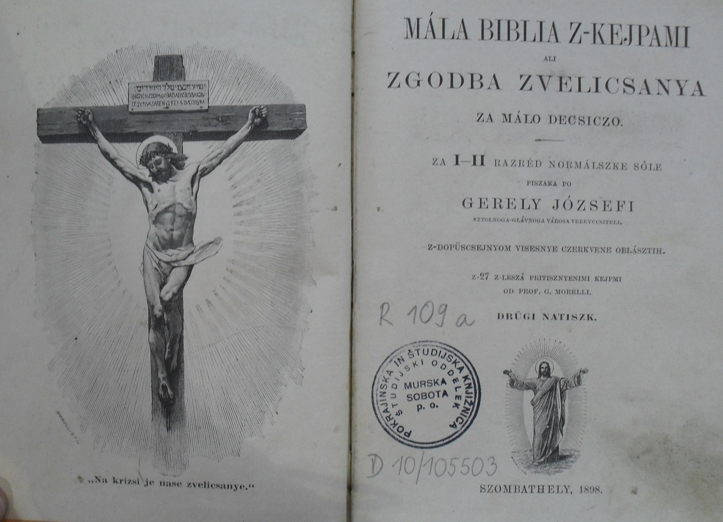 Mála biblia z-kejpami (Small Bible with pictures), short historys from the Old and New Testament in prekmurian language. Author: Péter Kollár. 3. issue in 1898